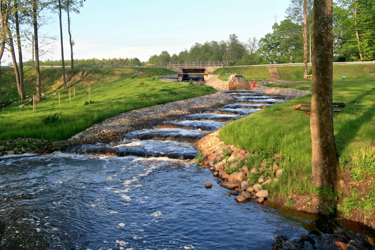 Viešvilė, Fish-ladder